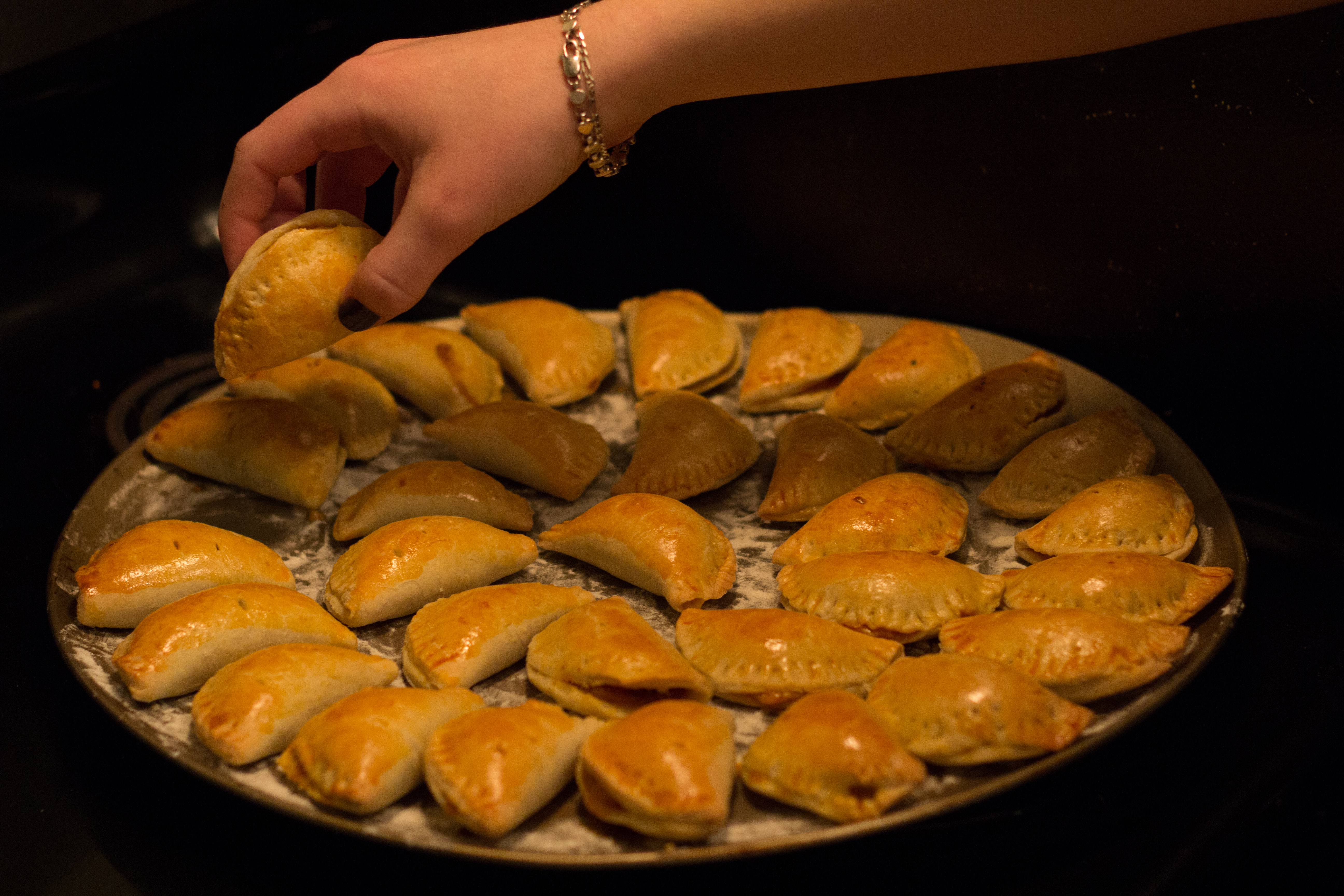 A tray of empanadas arranged in a circular fashion